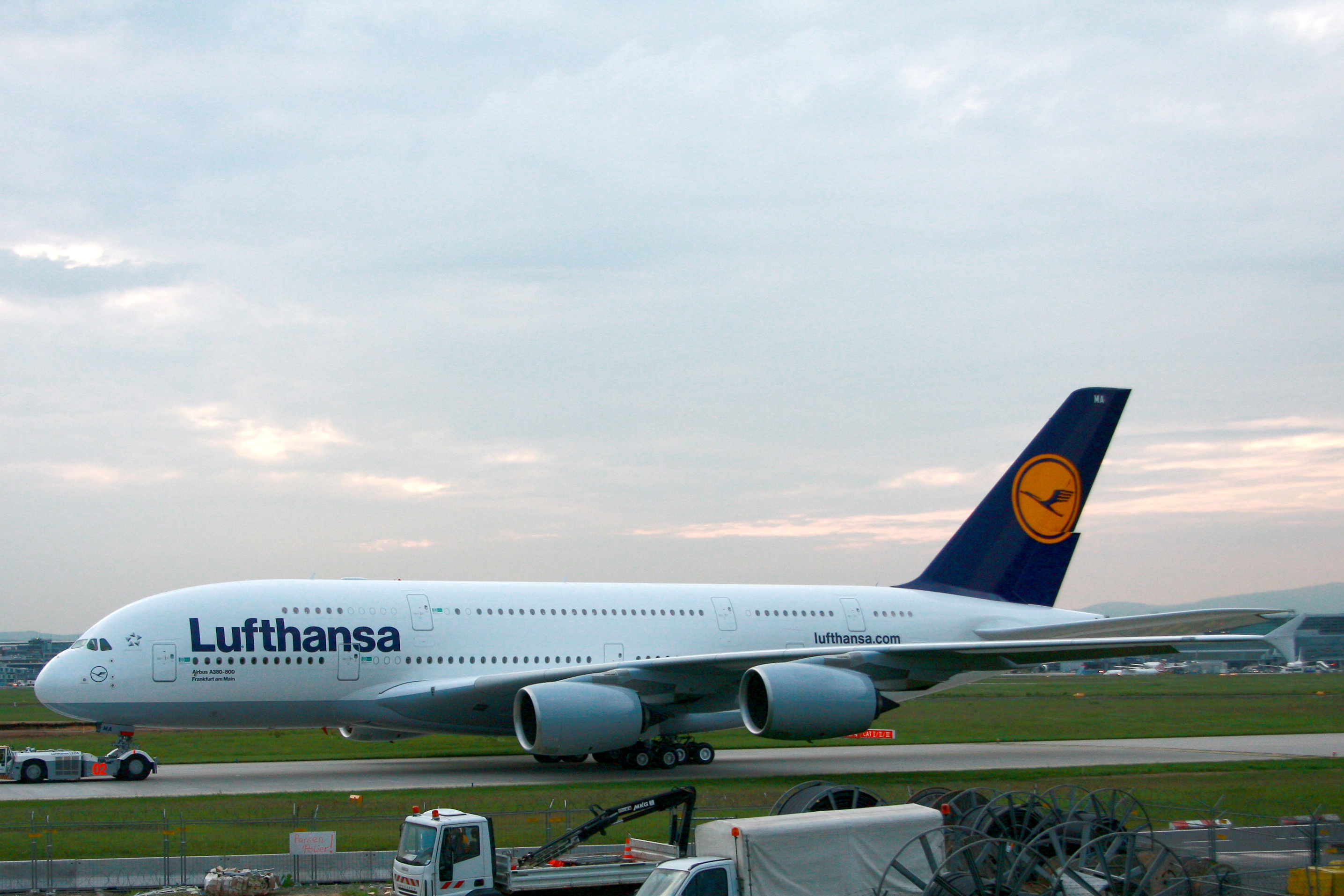 Lufthansa's first Airbus A380 at Frankfurt Airport